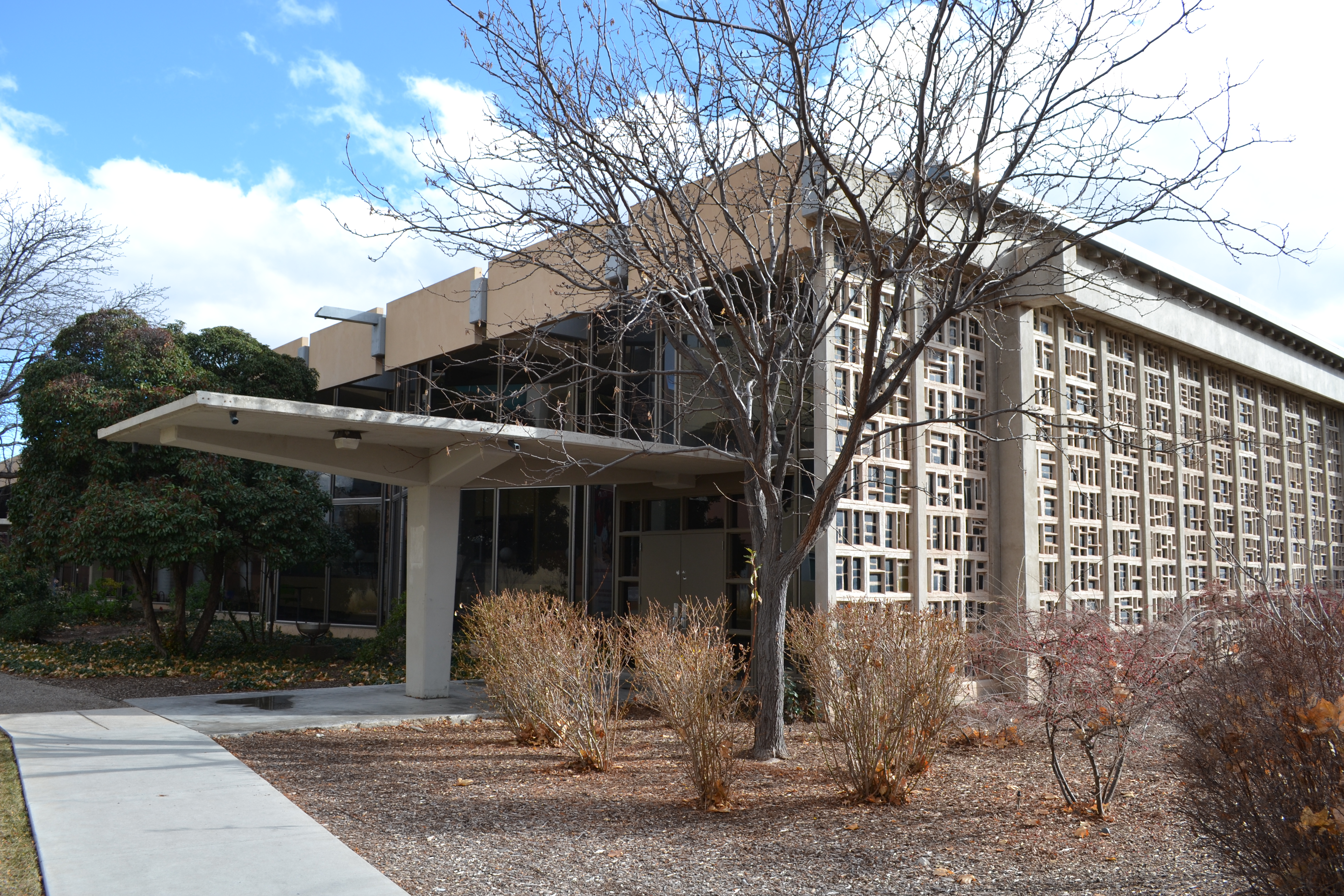 Travelstead Hall (1963), part of the College of Education at the University of New Mexico